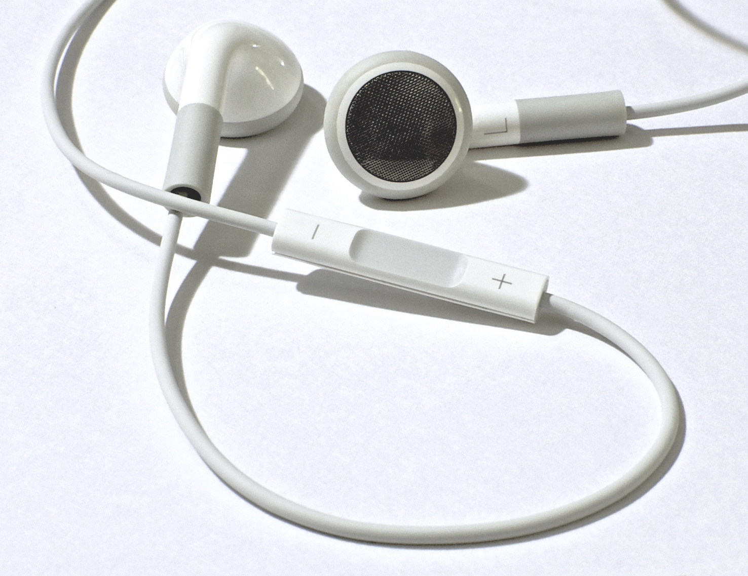 Remote controller attached to the iPod Touch Late 2009 earbuds. +/- control volume; center press pauses/plays current track; built-in microphone receives voice commands.